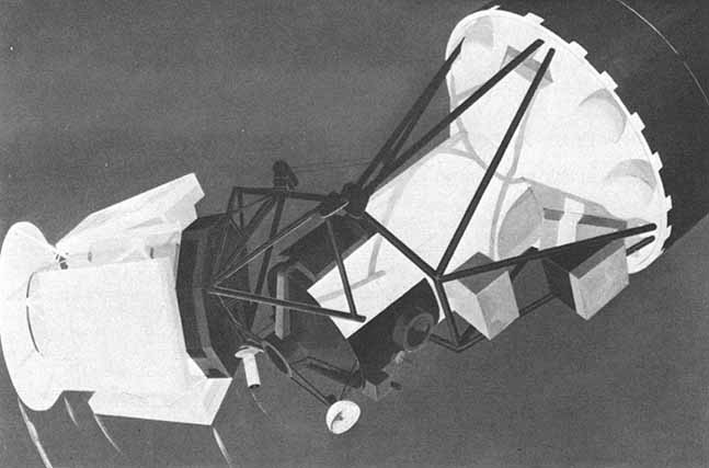 Deployment of Apollo Telescope Mount (ATM) by rotation through 90 degrees.